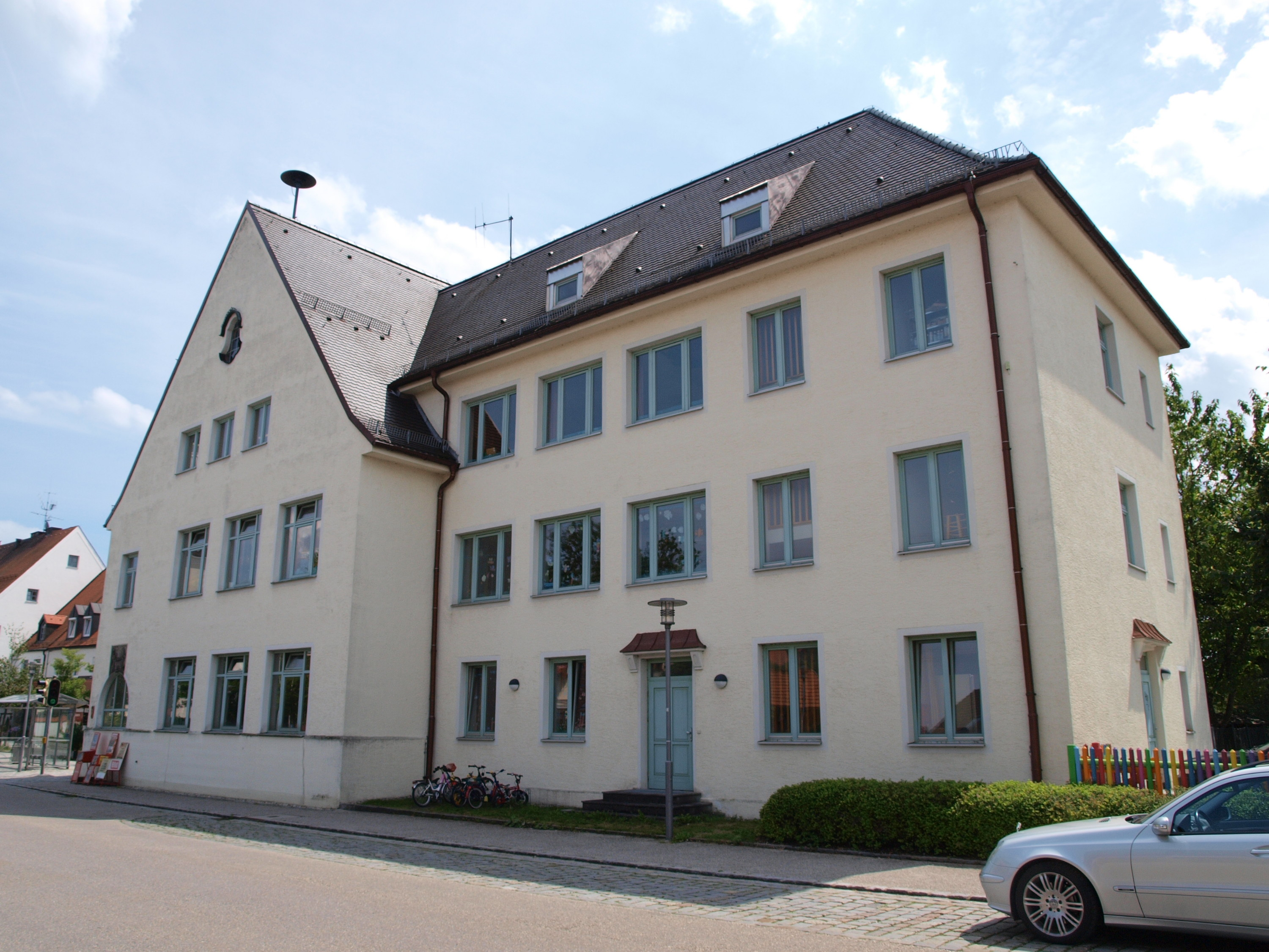 Kindergarden St. Andreas in Kirchheim, formerly the school of the place, from 1874 to 1971.